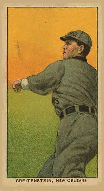 Baseball card featuring Ted Breitenstein while he was playing with the New Orleans Pelicans (1904-1911).